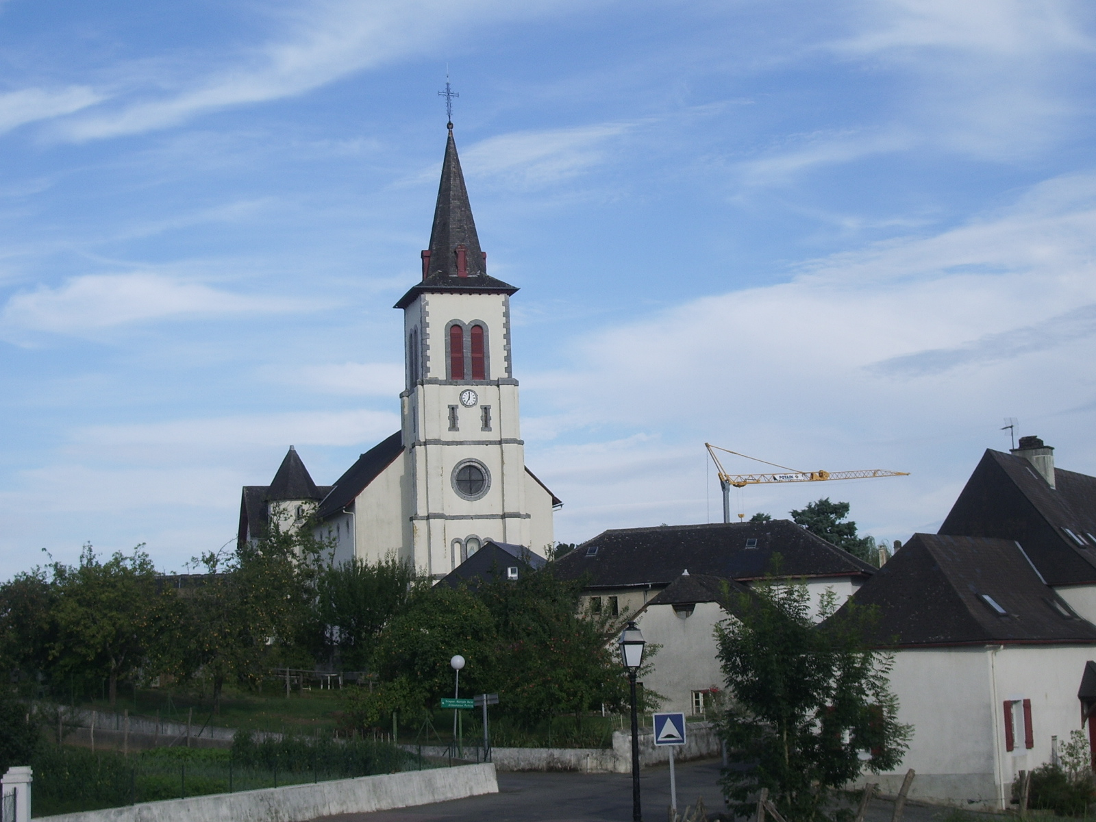 Church in Eskiula, France